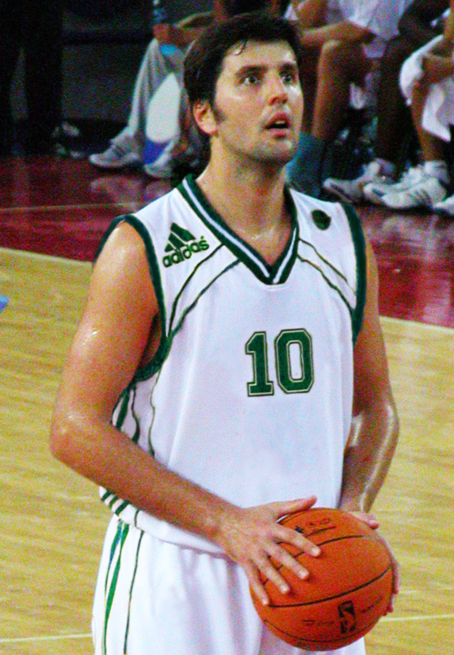 Serbian basketball player Dejan Bodiroga. (colour change by user Sportingn)